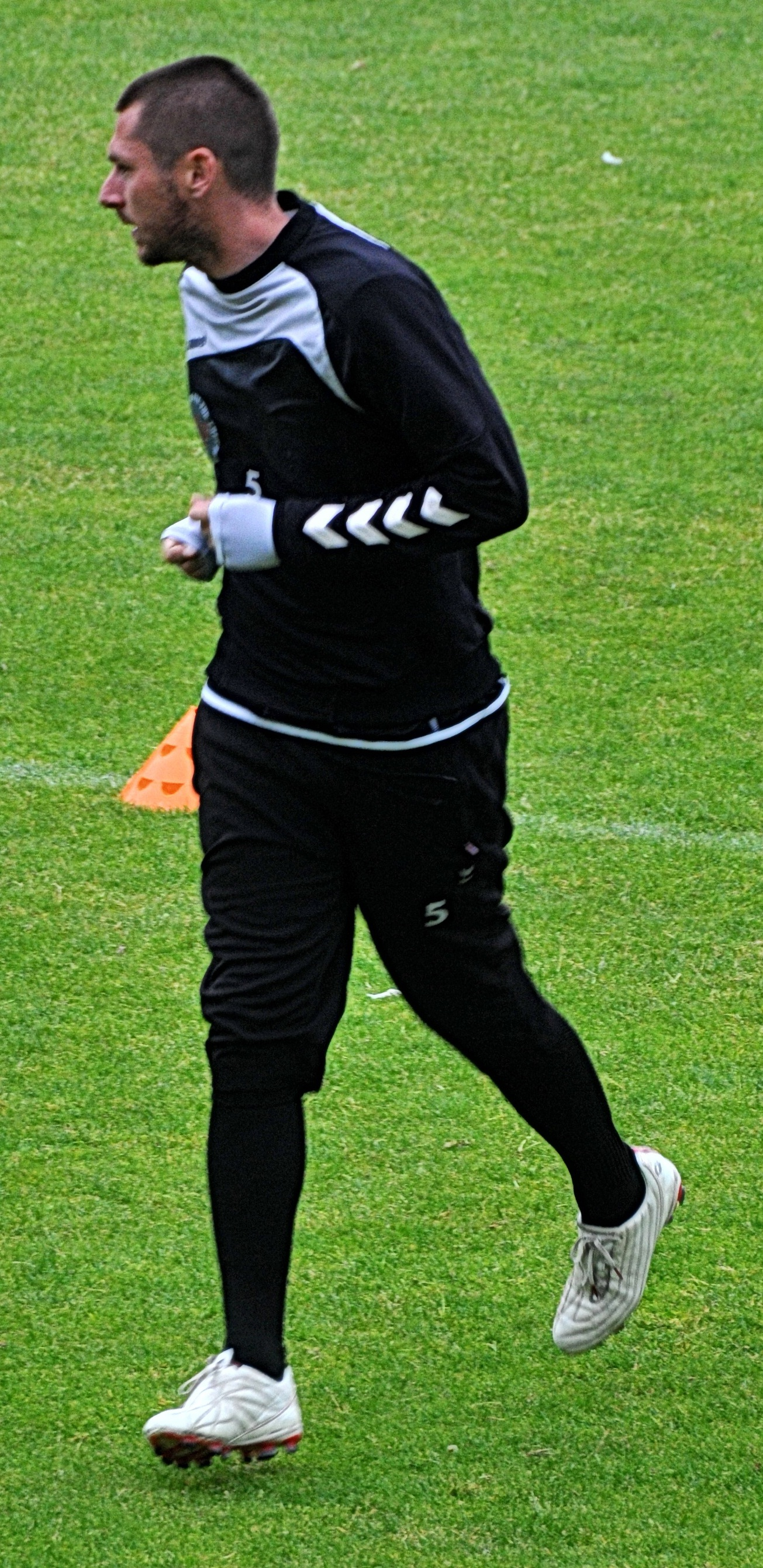 The Dutch footballer Pascal Bosschaart in 2011